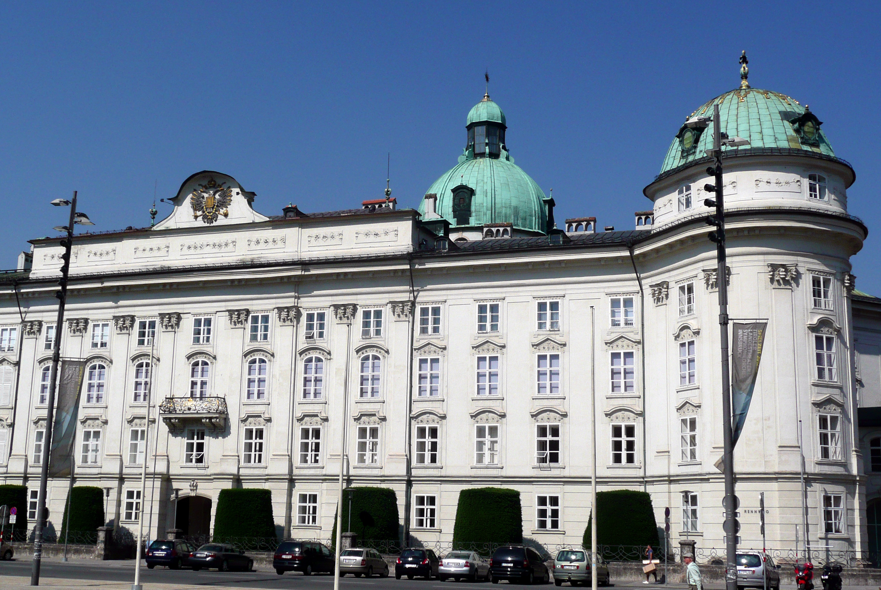 The royal palace in Innsbruck